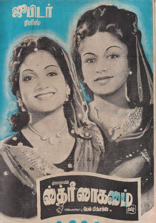 Poster for the 1951 South Indian Tamil film Sthree Sahasam